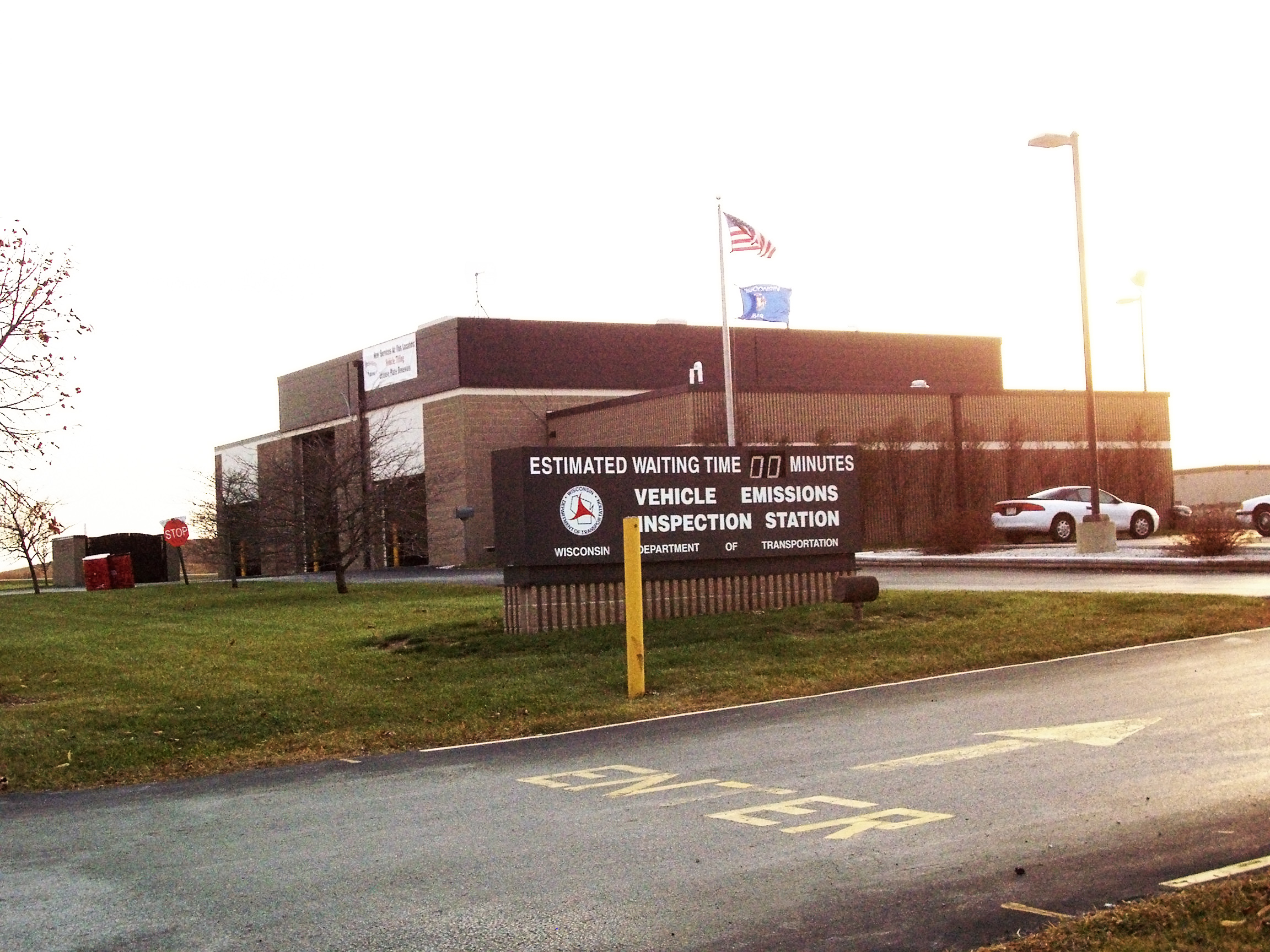 The Wisconsin Department of Transportation vehicle emissions inspection station in Sheboygan, Wisconsin, USA.